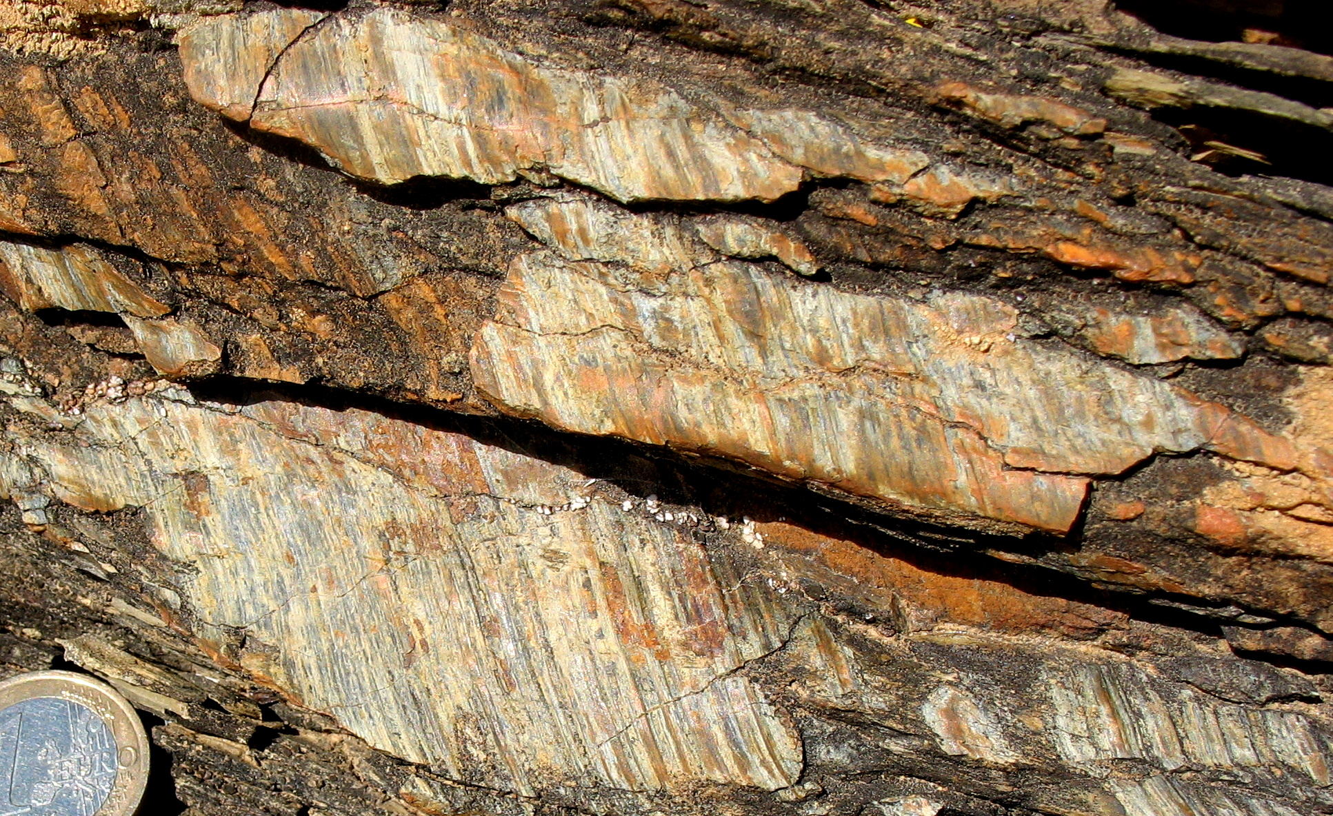 Striated fault plane. Mira Formation, Carboniferous from Tavira, Portugal. (Scale coin: 1 EUR, Ø 23,25 mm)